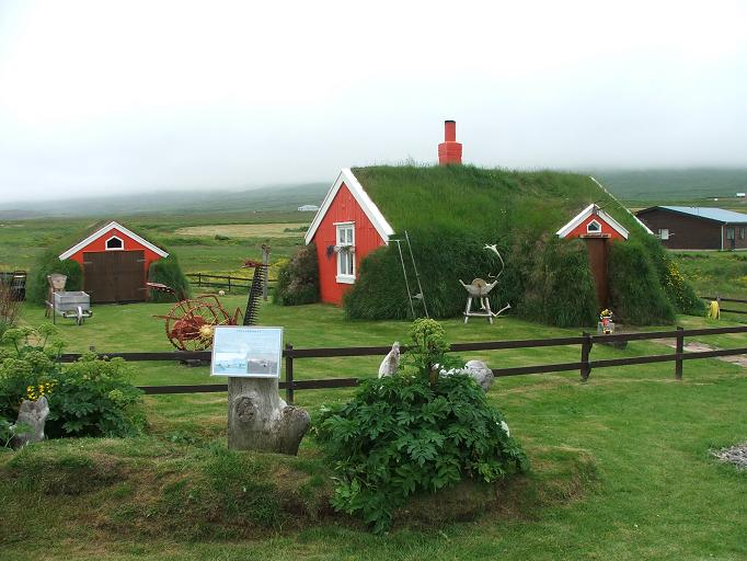 Earth sheltering on traditional house in Iceland